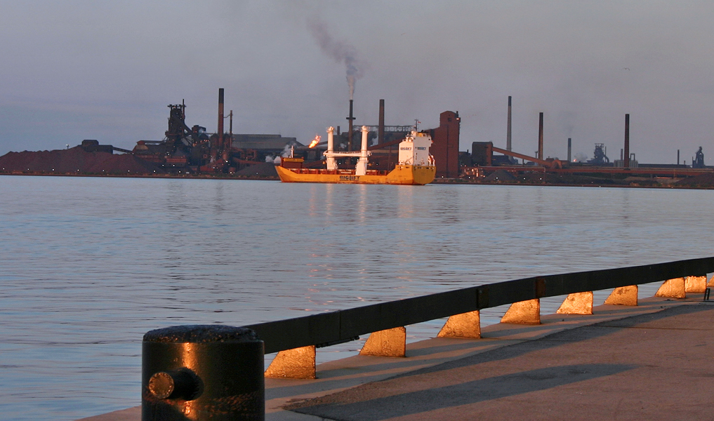 Freighter, Hamilton Ontario (One of the BigLift Shipping TRA-type ships)